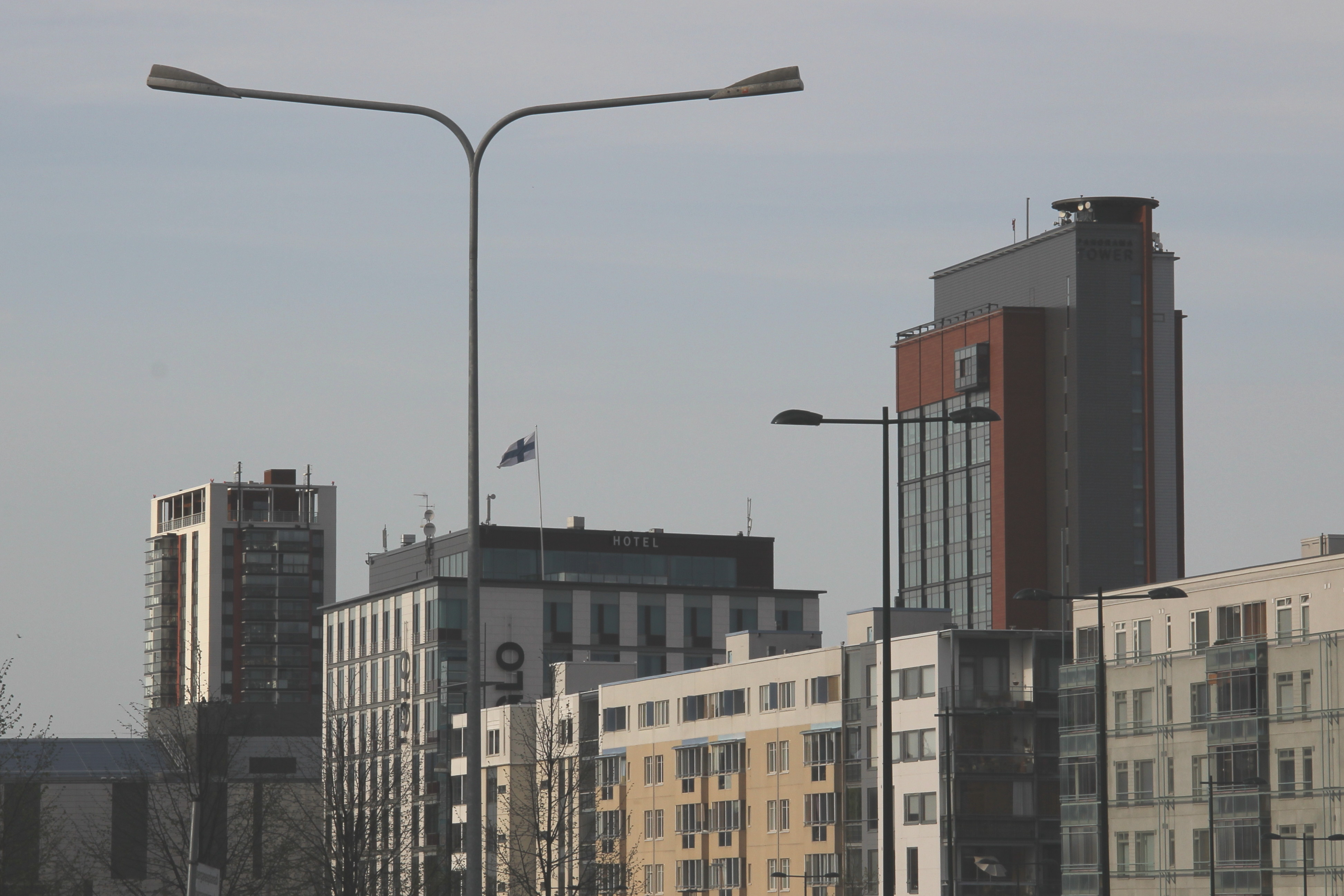 High-rises Panorama Tower (right) and Leppävaara Tower (left) in Leppävaara, Espoo, Finland. Photo taken from Säteri area in Southern Leppävaara.